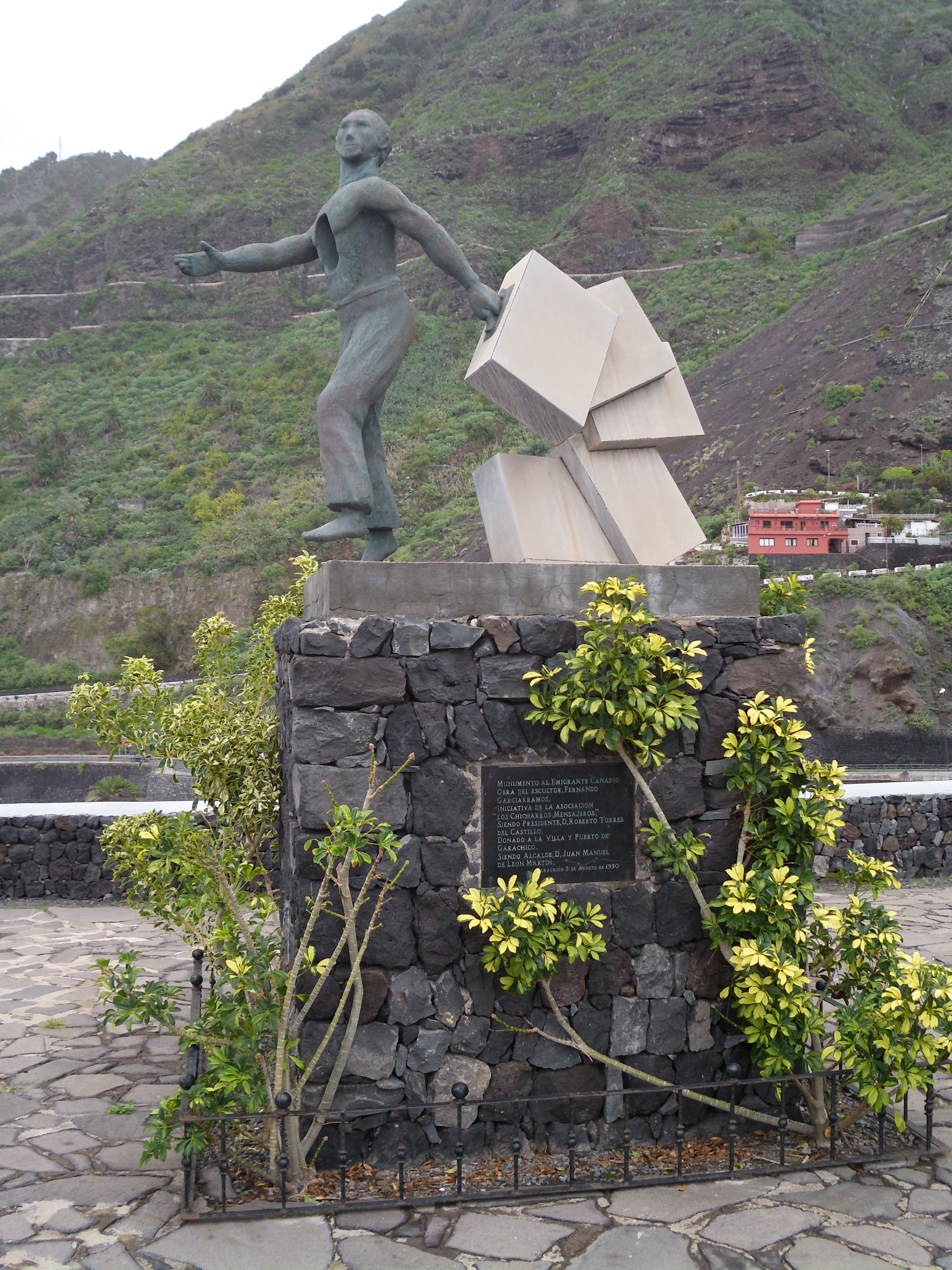 Monument of an emigrant from the Canary Islands outside Garachico, Tenerife.